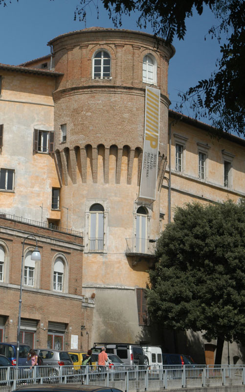 Palazzo della Penna, tower